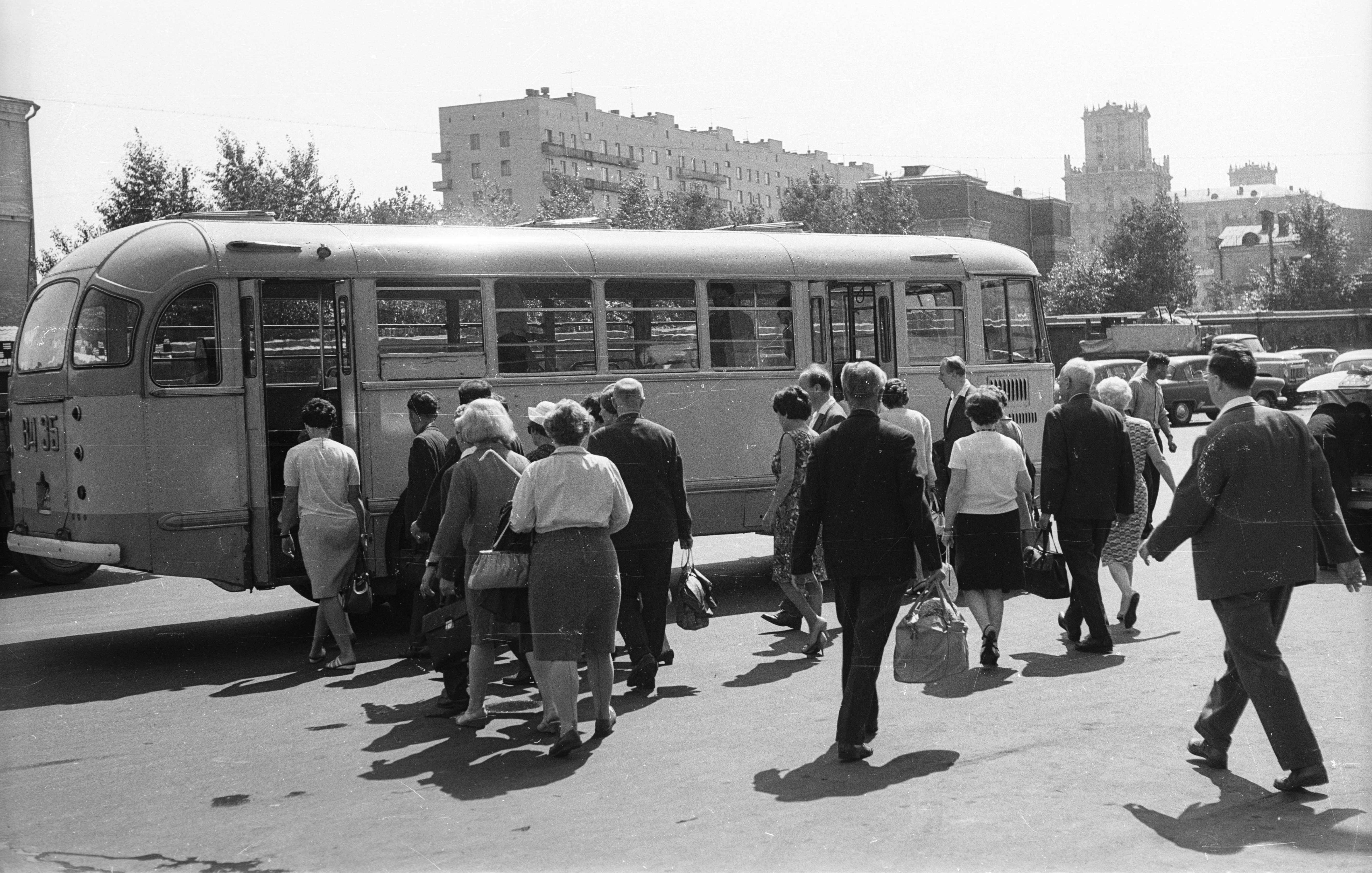 A bus stop in Moscow near Kievsky Rail Terminal. Buildings in sight are Berezhkovskaya Embankment 4, 8 and 12 (tower). Today this view is obscured by the Radisson-Slavyanskaya building